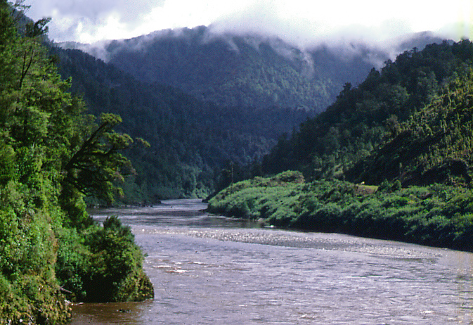 Buller River near the town of Berlins, Region of West Coast, New Zealand.